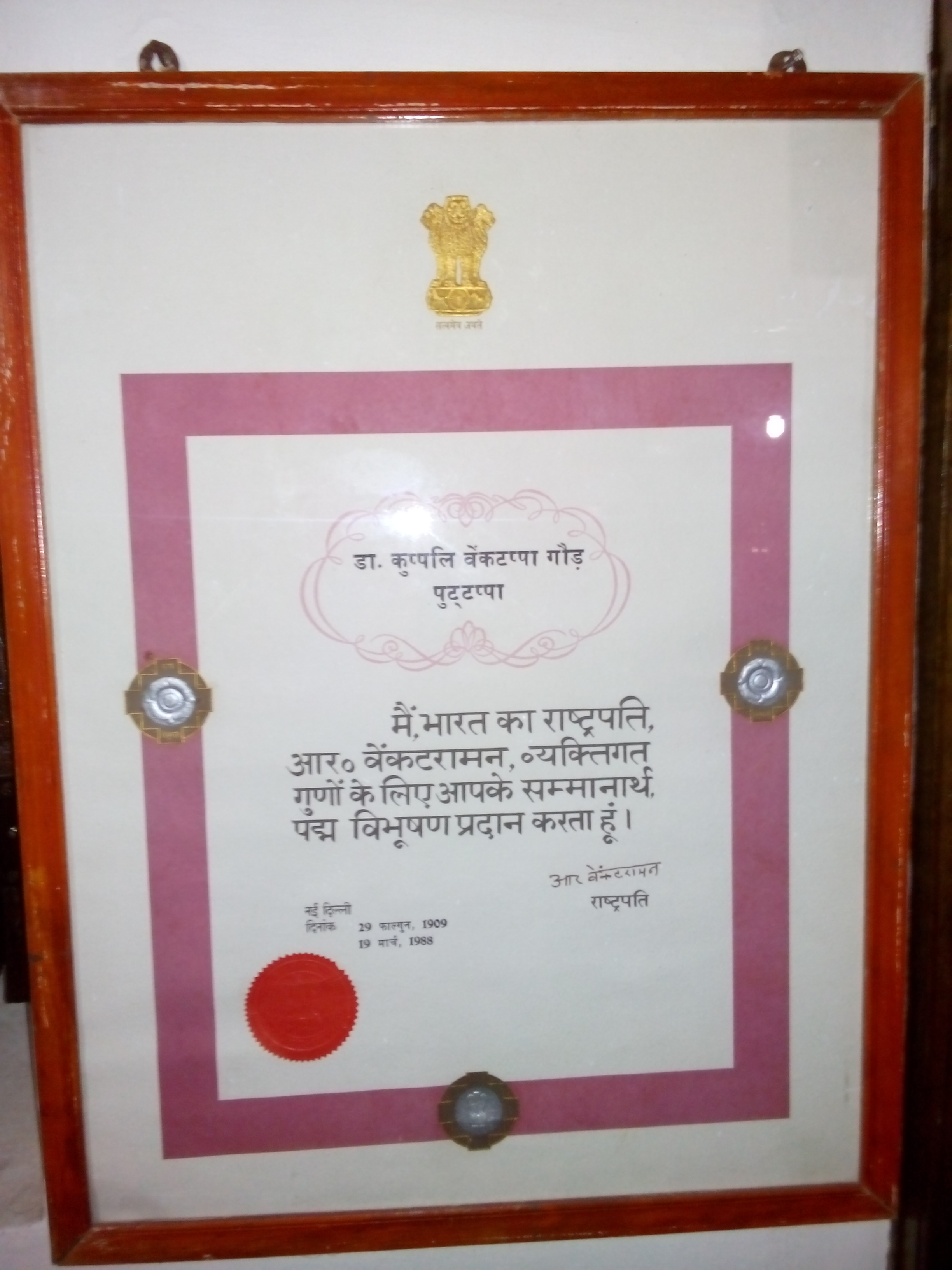 greatest honour